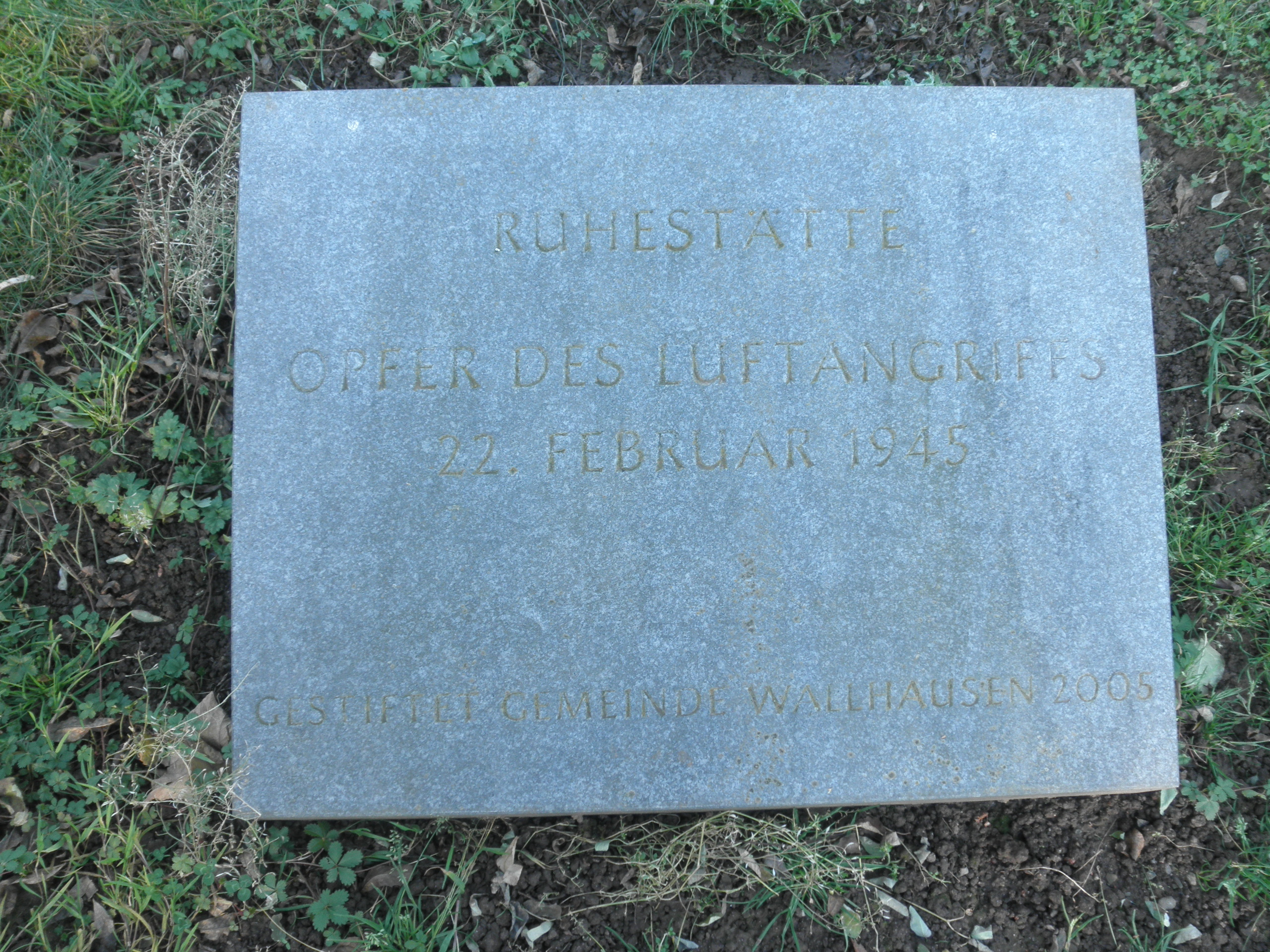 Bombing Victims in Wallhausen (Helme) in Saxony-Anhalt